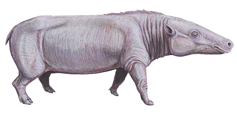 Anthracotherium